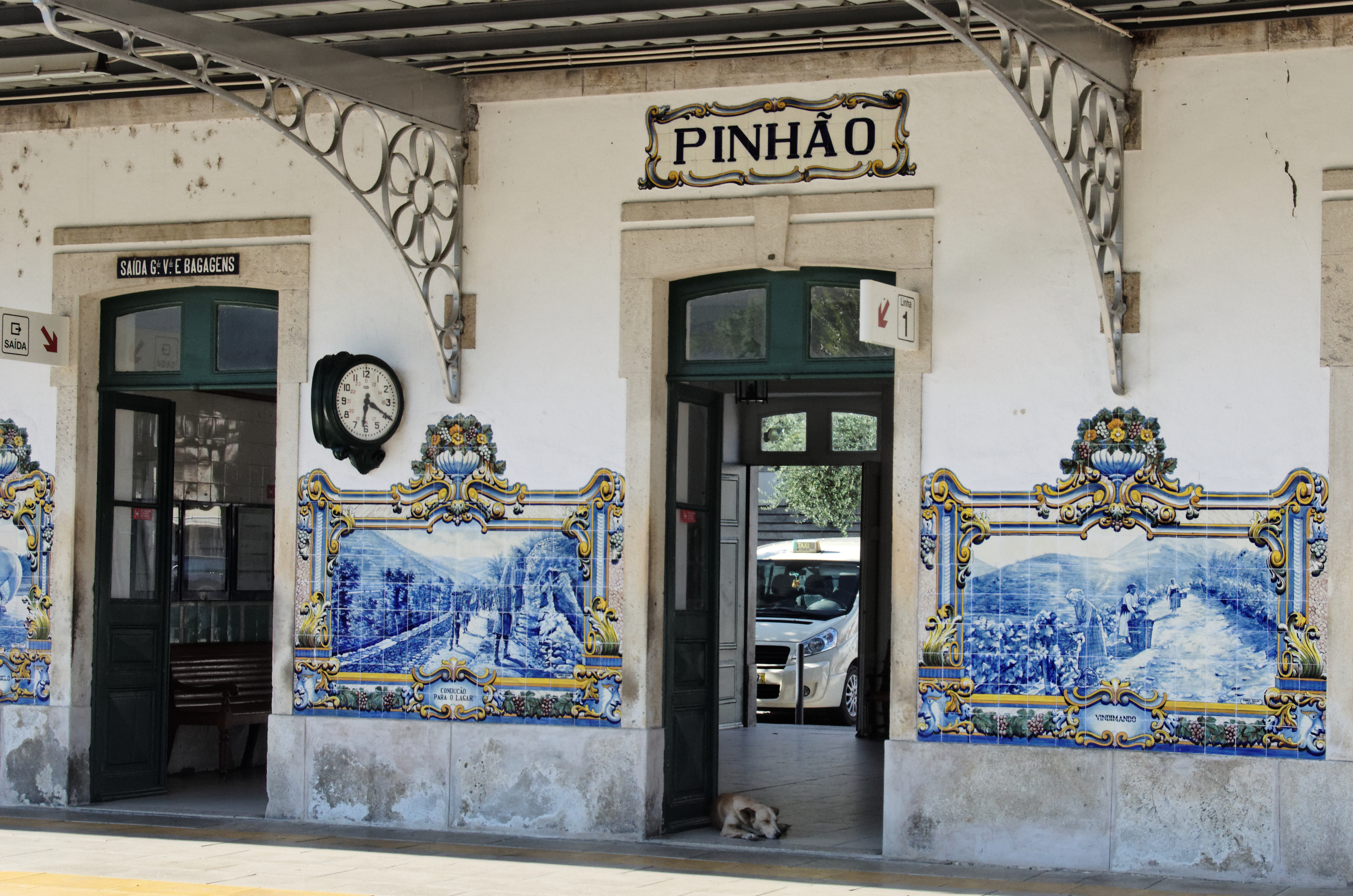 Pinhão train station, Portugal